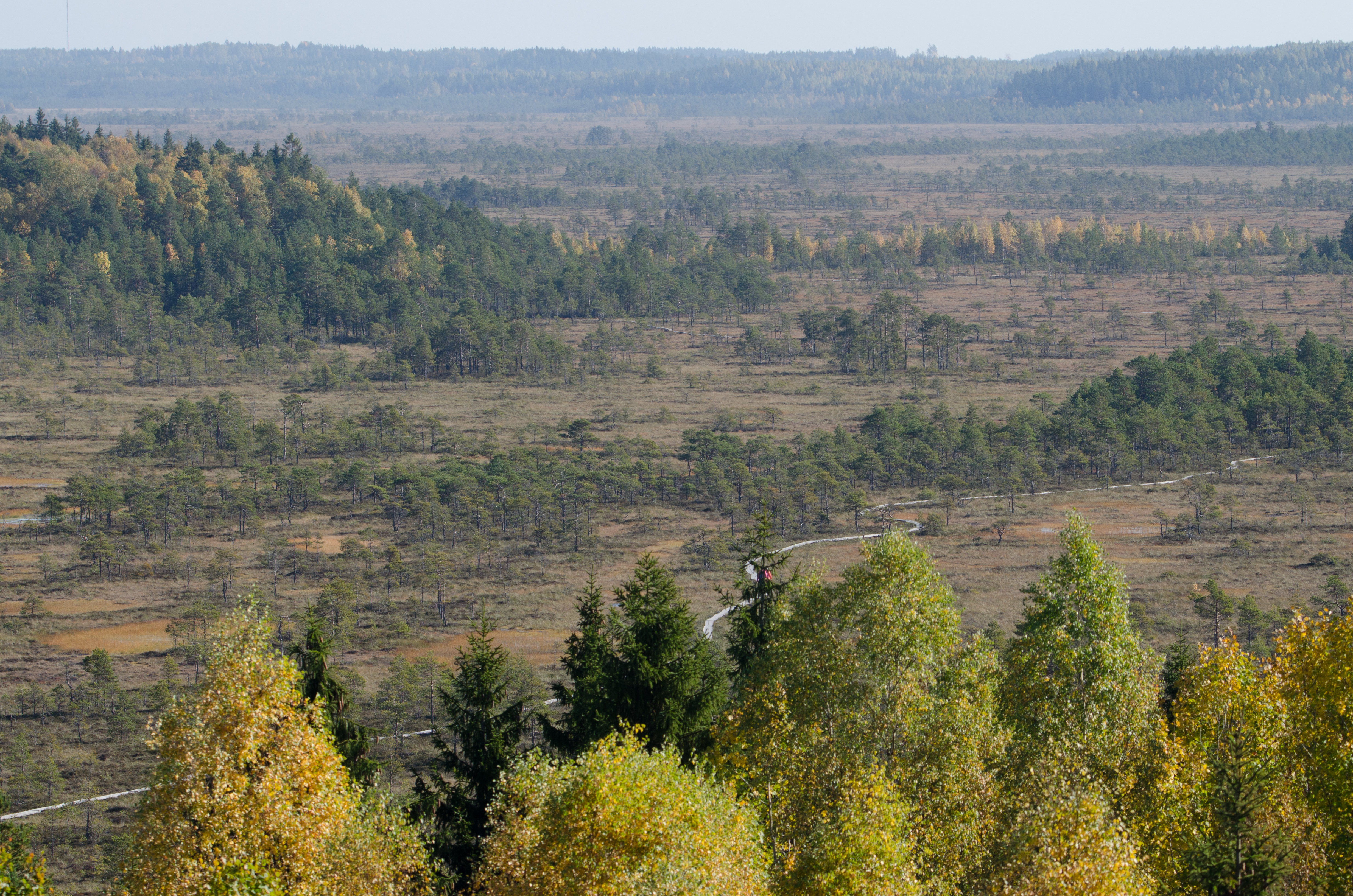 Torronsuo National Park - Kiljamo Scenic Tower. Nice view from Kiljamo scenic tower. I used Tamron 150-600mm to be able to see more details. Kiljamo scenic tower, Torronsuo National Park, Tammela, Finland. 25.9.2017